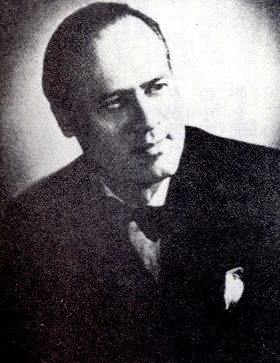 Yoshie Fujiwara, Japanese tenor